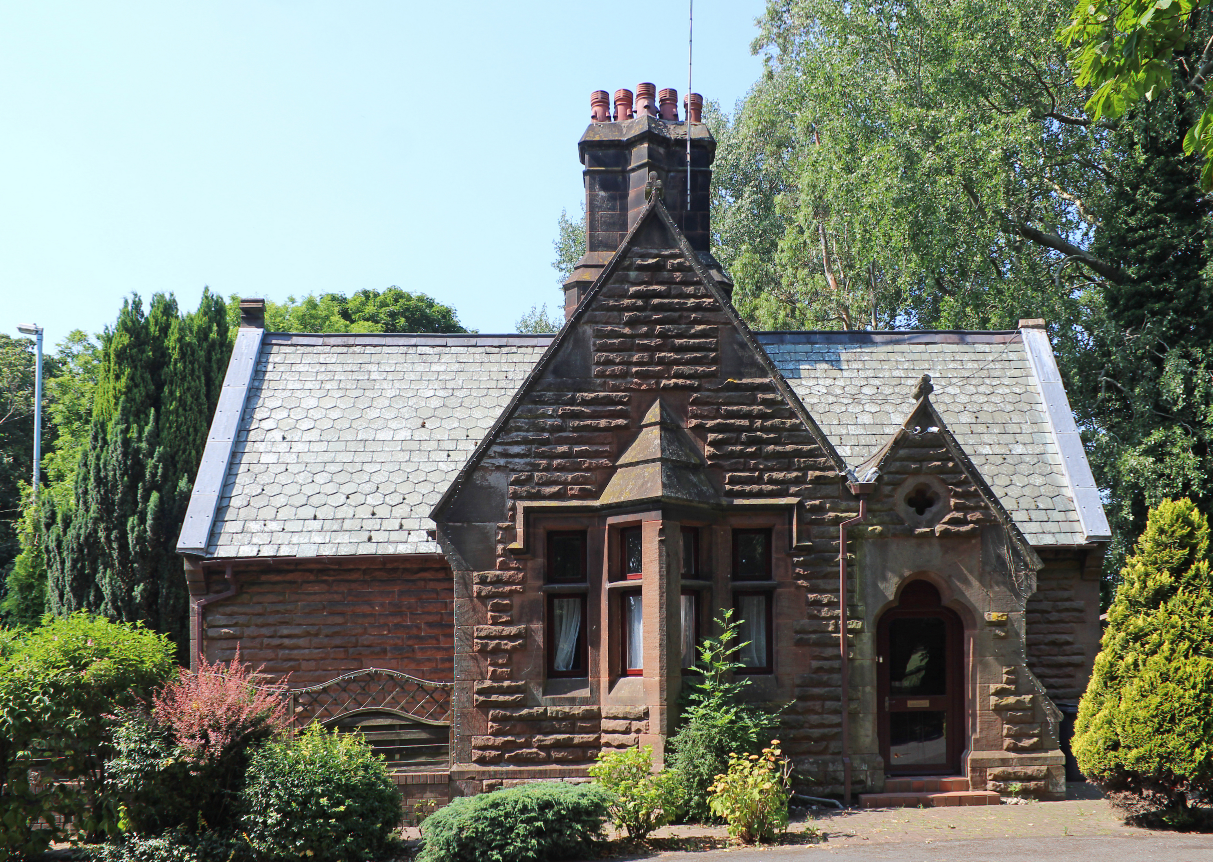 Grade II listed estate lodge, c. 1856 by Alfred Waterhouse; front elevation